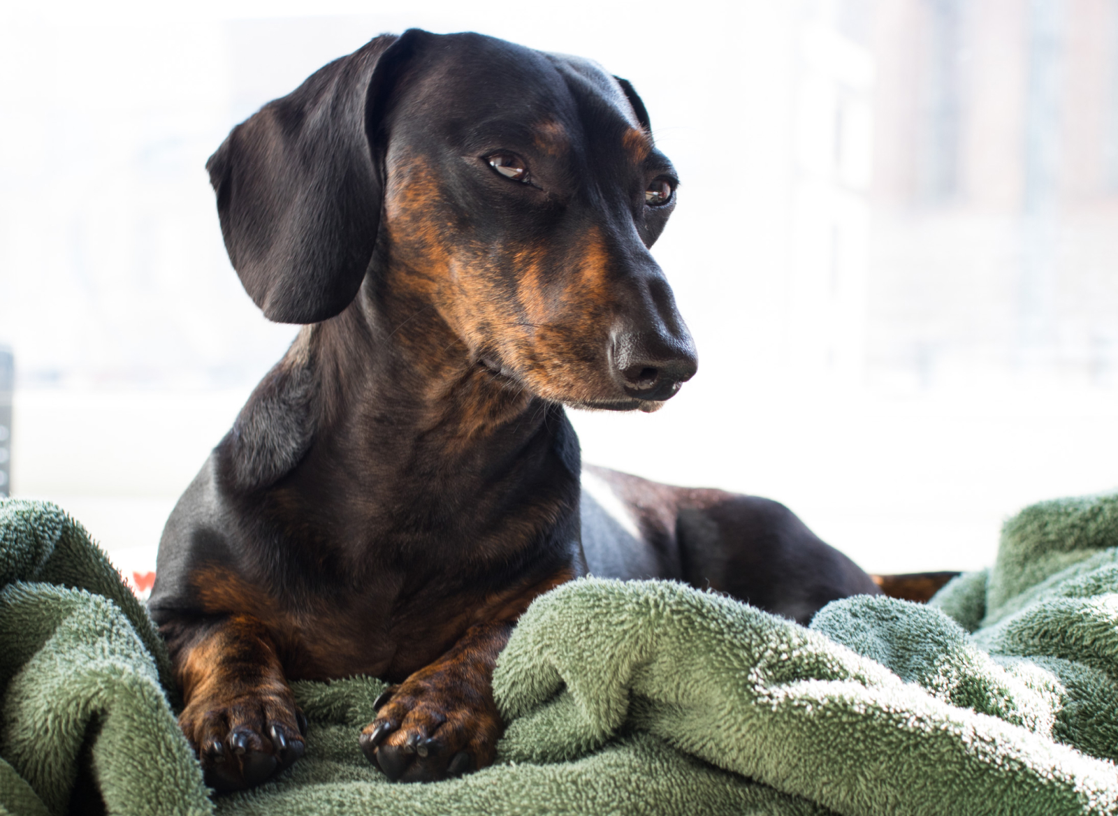 A black and tan miniature dachshund with brindle markings